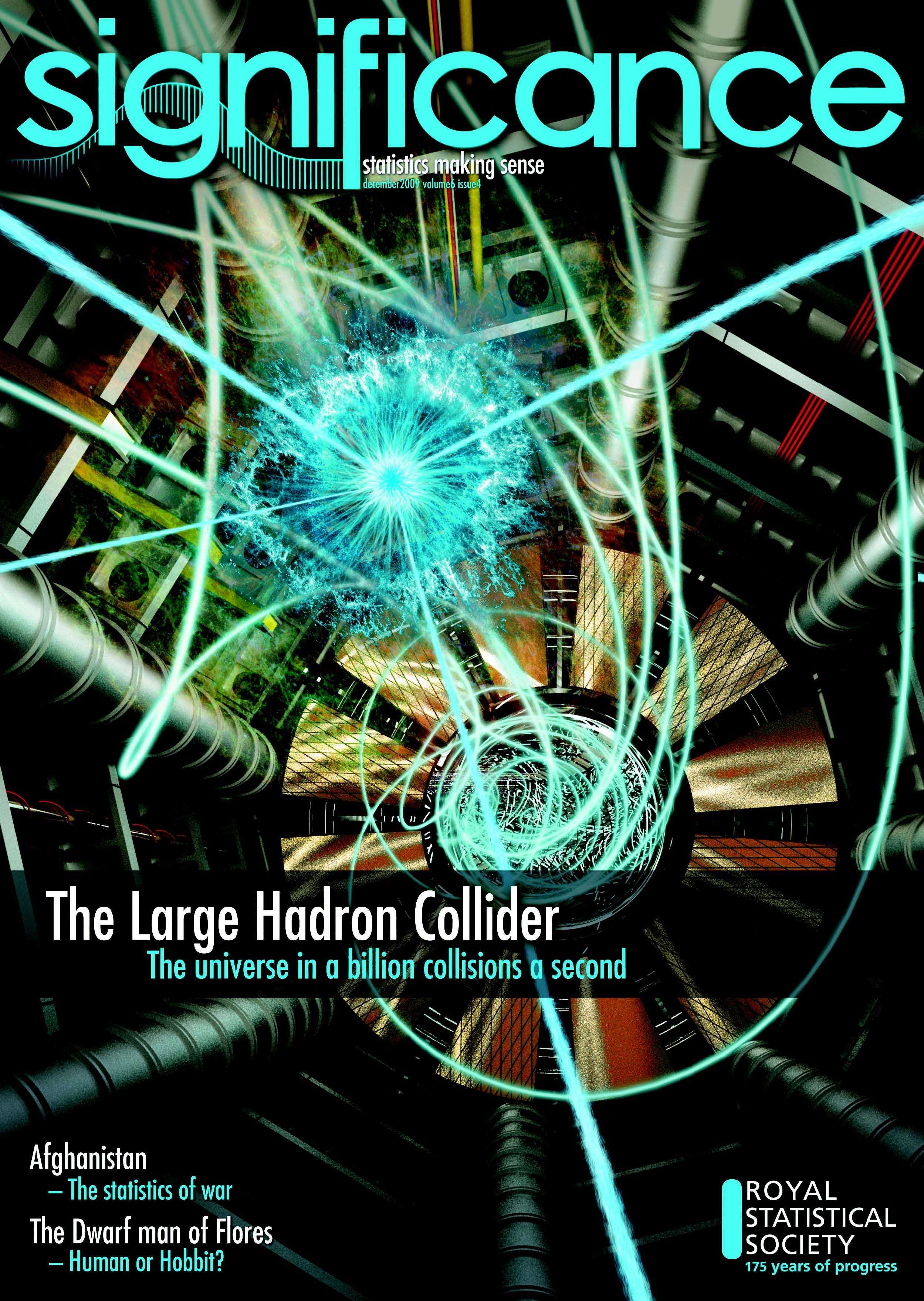 Significance magazine cover